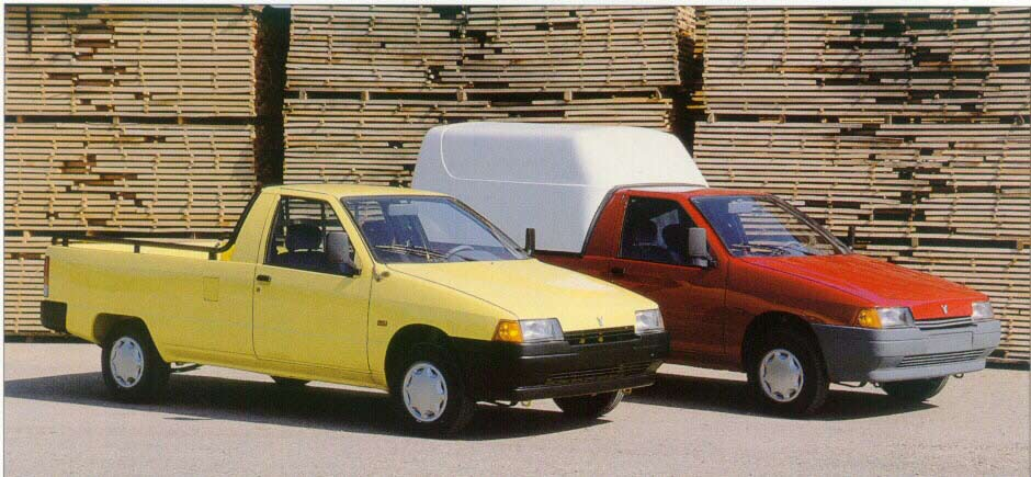 Cars